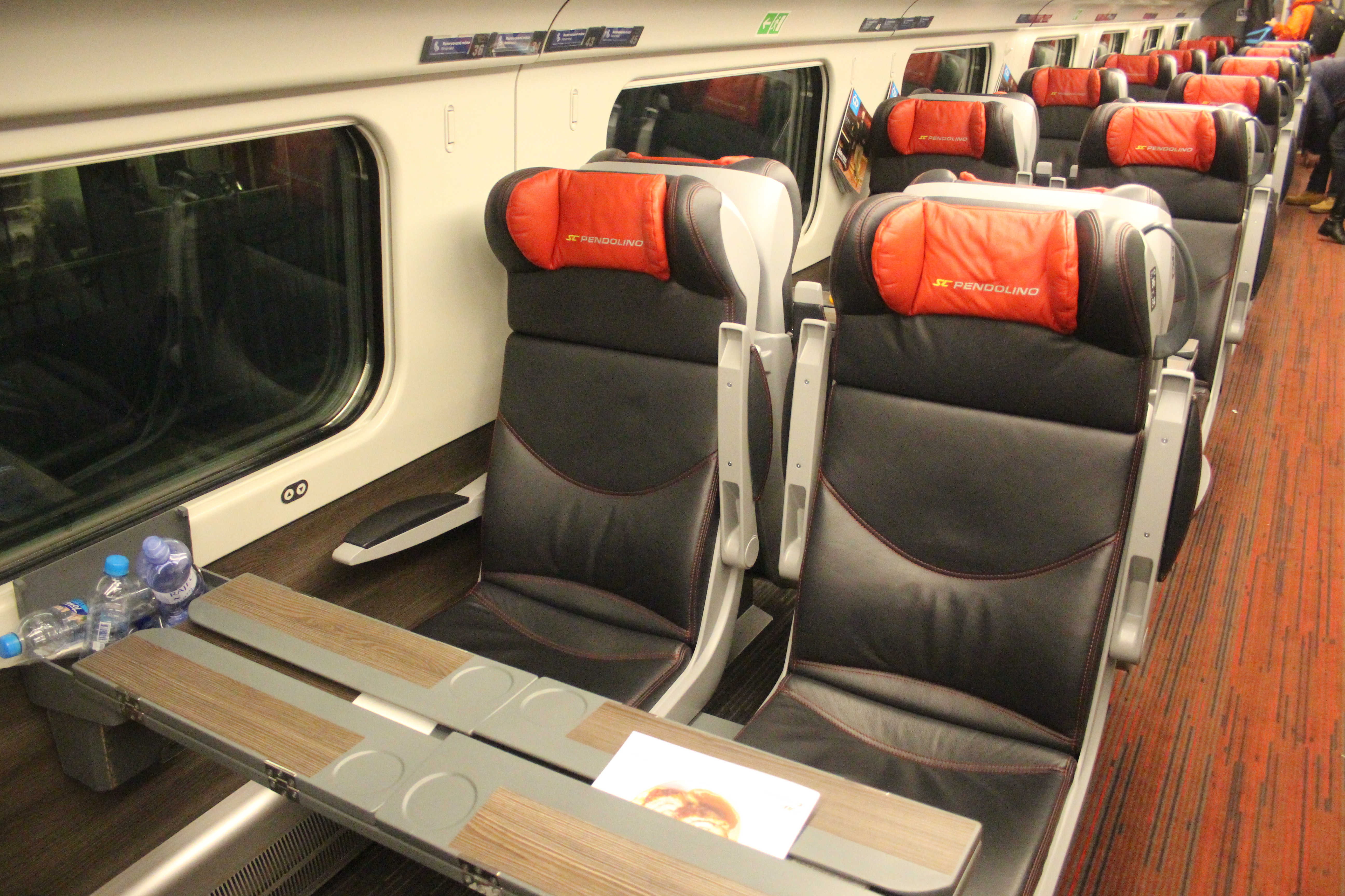 The recently refurbished first class interior on a ČD SuperCity Pendolino.